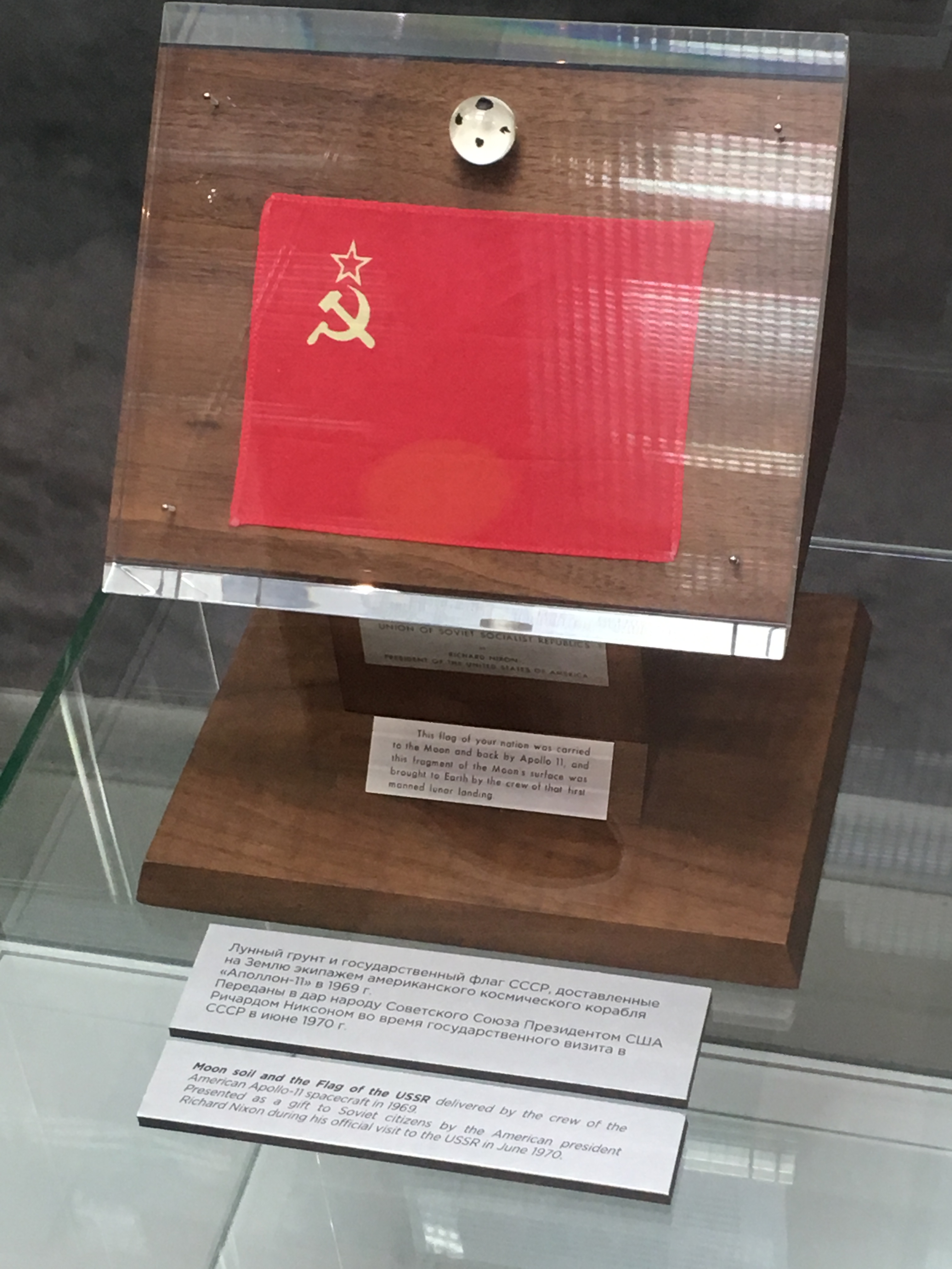 Collections of Memorial Museum of Cosmonautics. Soviet flag carried on board the Apollo 11 mission, and samples of lunar soil. A 1970 gift by Richard Nixon. One of 135 Apollo 11 lunar sample displays distributed by US government around the world.